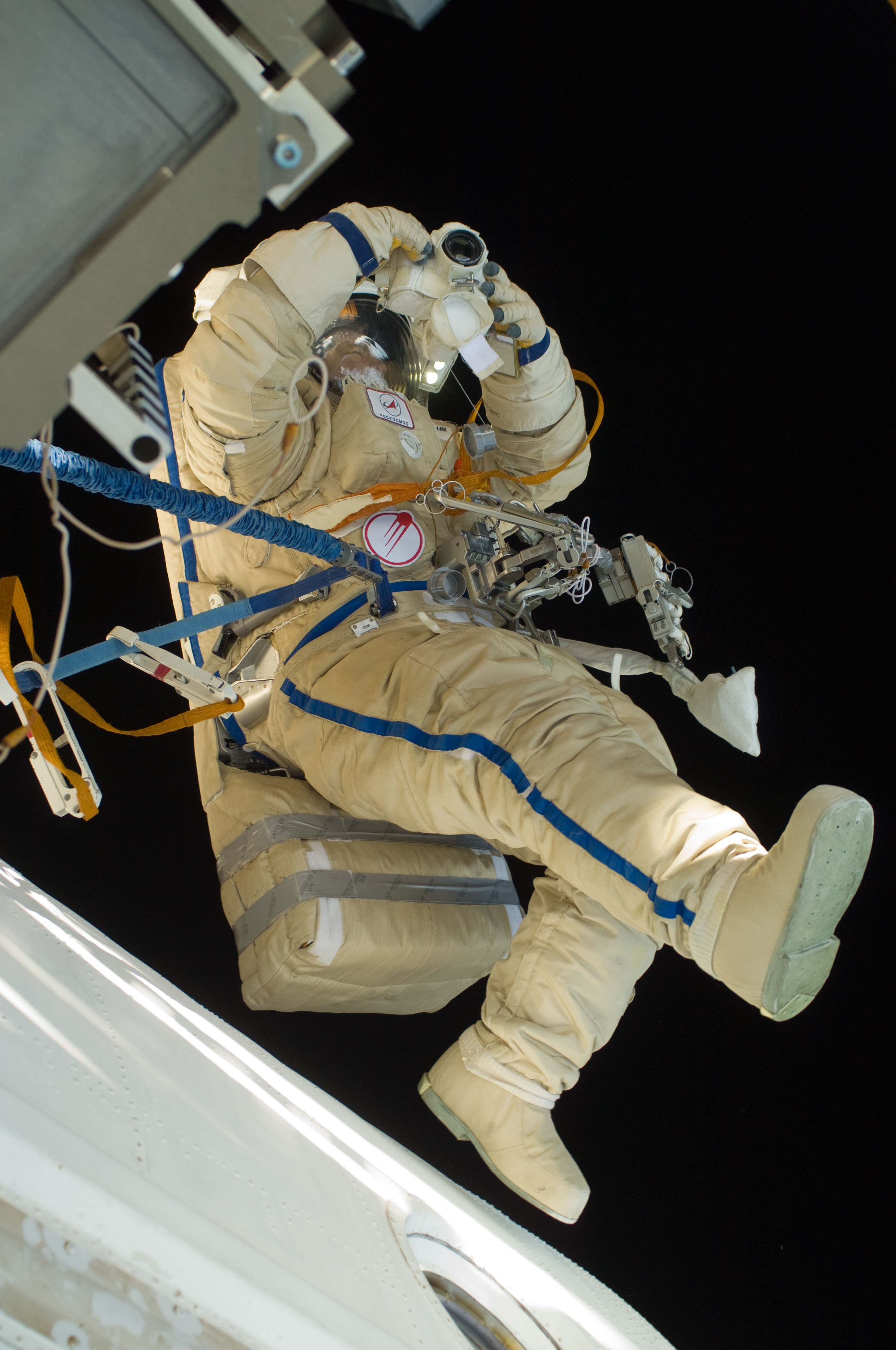 Russian cosmonaut Oleg Skripochka, Expedition 26 flight engineer, wearing a Russian Orlan-MK spacesuit, participates in a session of extravehicular activity (EVA) focused on the installation of two scientific experiments outside the Zvezda Service Module of the International Space Station. During the four-hour, 51-minute spacewalk, Skripochka and Russian cosmonaut Dmitry Kondratyev (out of frame), flight engineer, installed a pair of earthquake and lightning sensing experiments and retrieved a pair of spacecraft material evaluation panels.